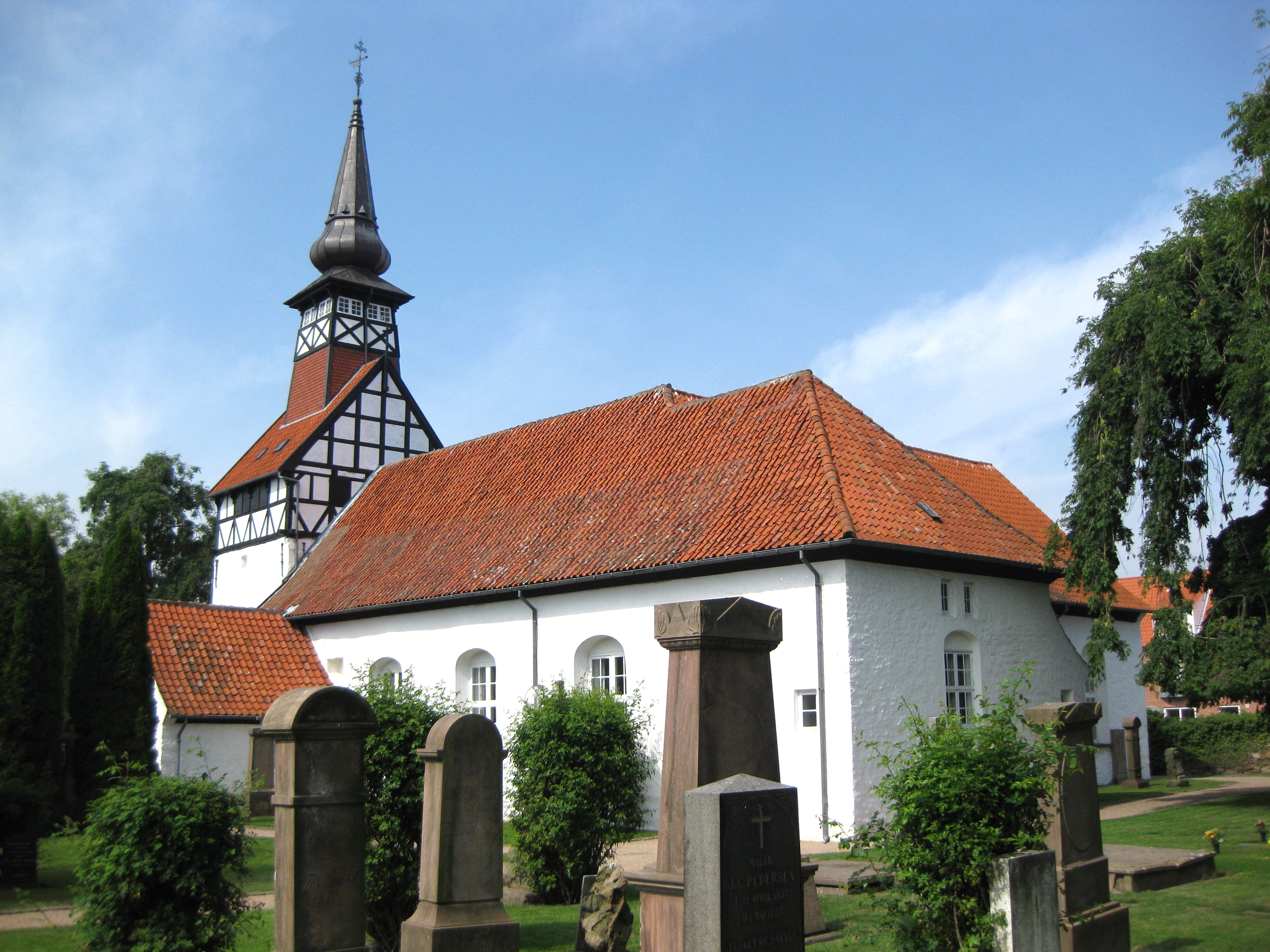 The church "Nexø Kirke" located in the small town "Nexø" on the island Bornholm in east Denmark.